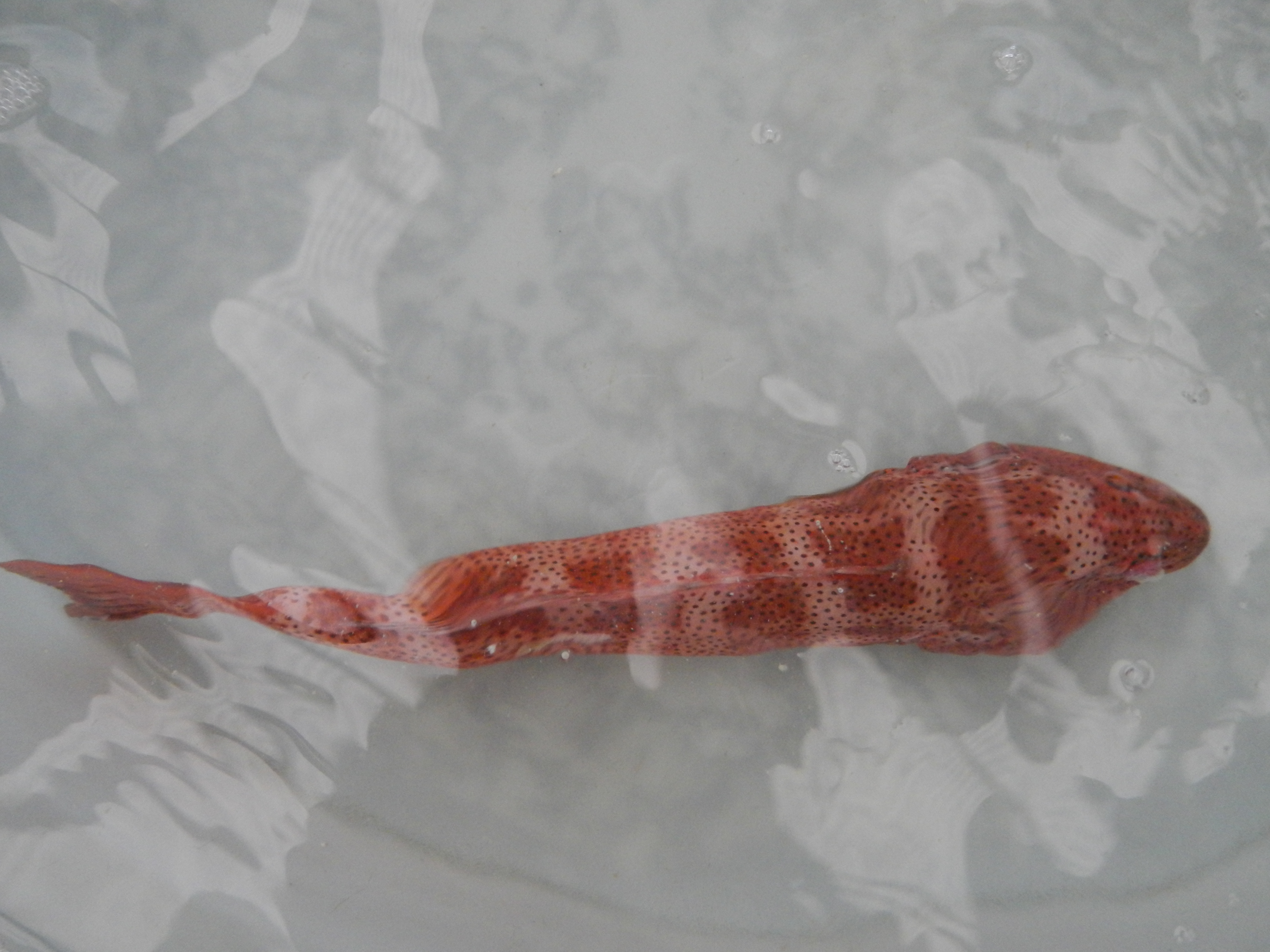 Multi-Species Fish and Invertebrate Breeding and Hatchery, (Oceanographic Marine Laboratory in Alaminos) Lucap, Alaminos, Pangasinan[1] Department of Agriculture, Bureau of Fisheries and Aquatic Resources, Regional Mariculture Technodemo Center (RMaTDeC) - April 20, 2011